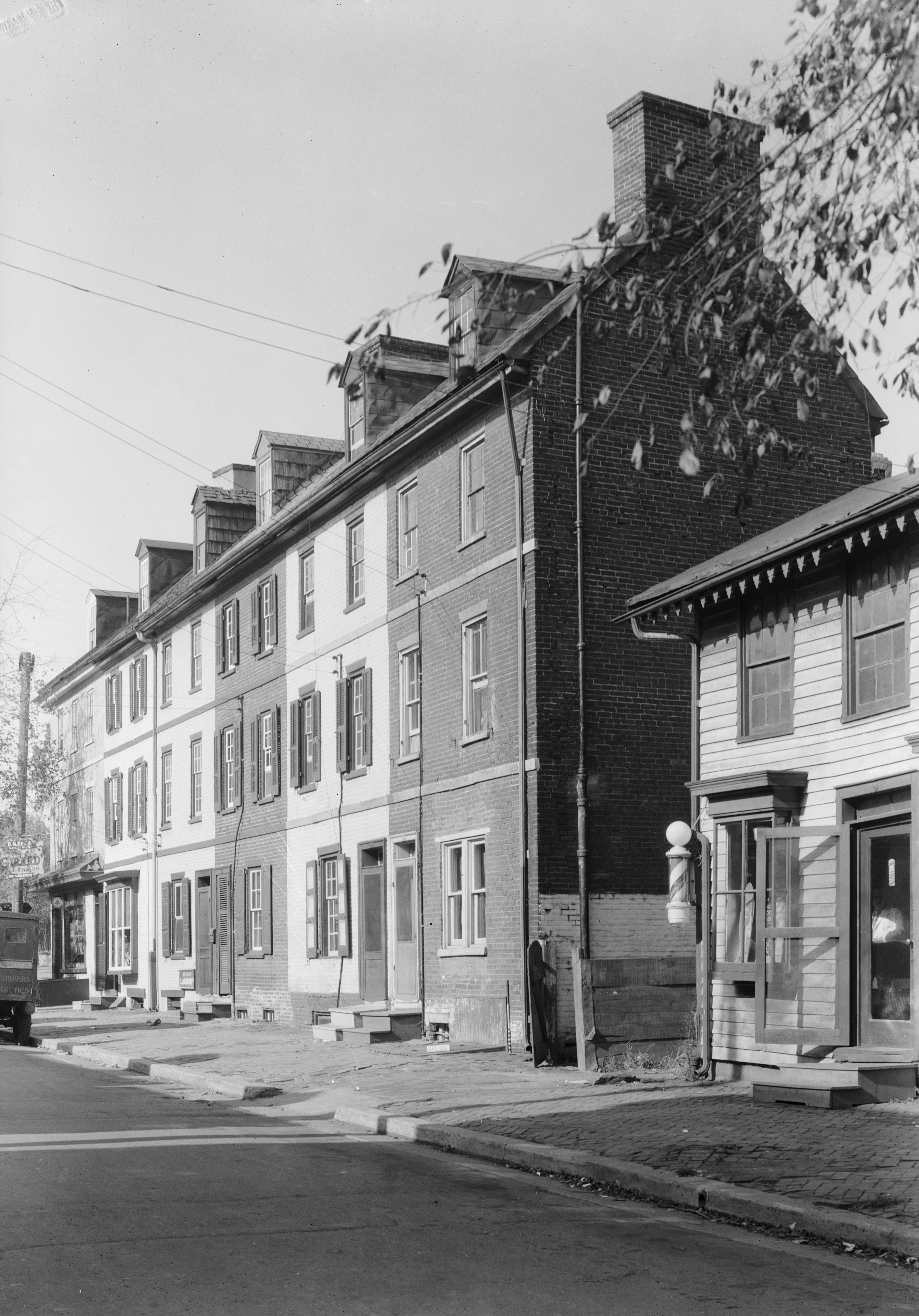 Cloud's Row, 117-125 Delaware Street, New Castle, Delaware.